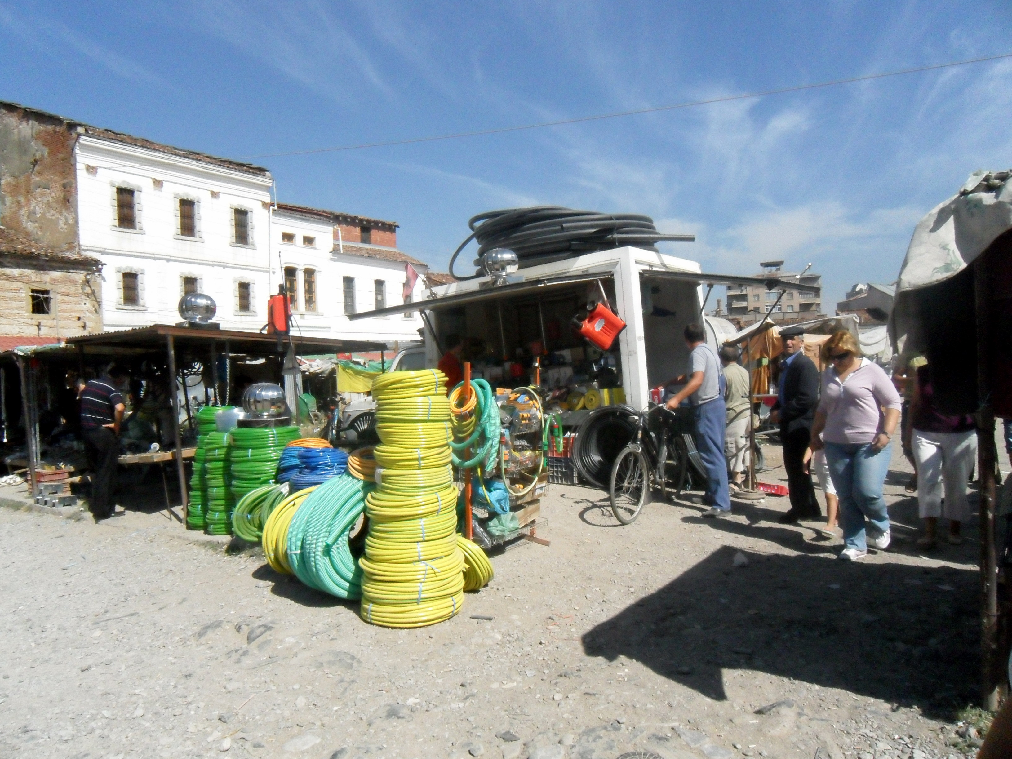 Bazaar in Korçë